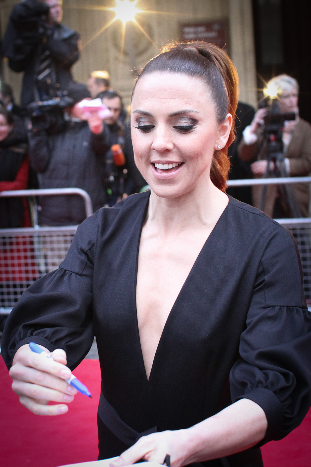 Mel C signs autographs outside the Royal Albert Hall where she performed at Mikhail Gorbachev's 80th birthday concert.